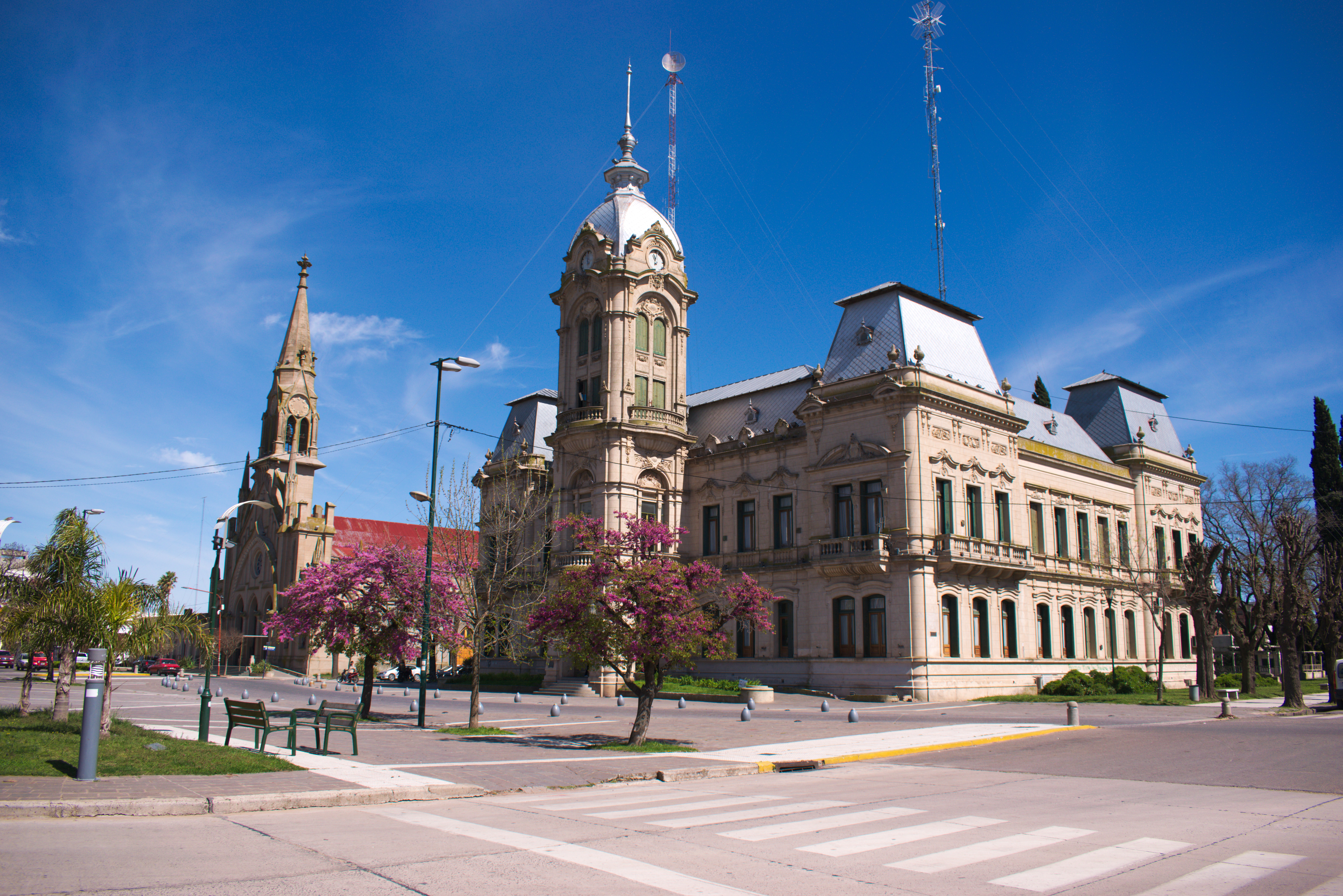 View of the Municipality of Tres Arroyos (Province of Buenos Aires, Argentina)